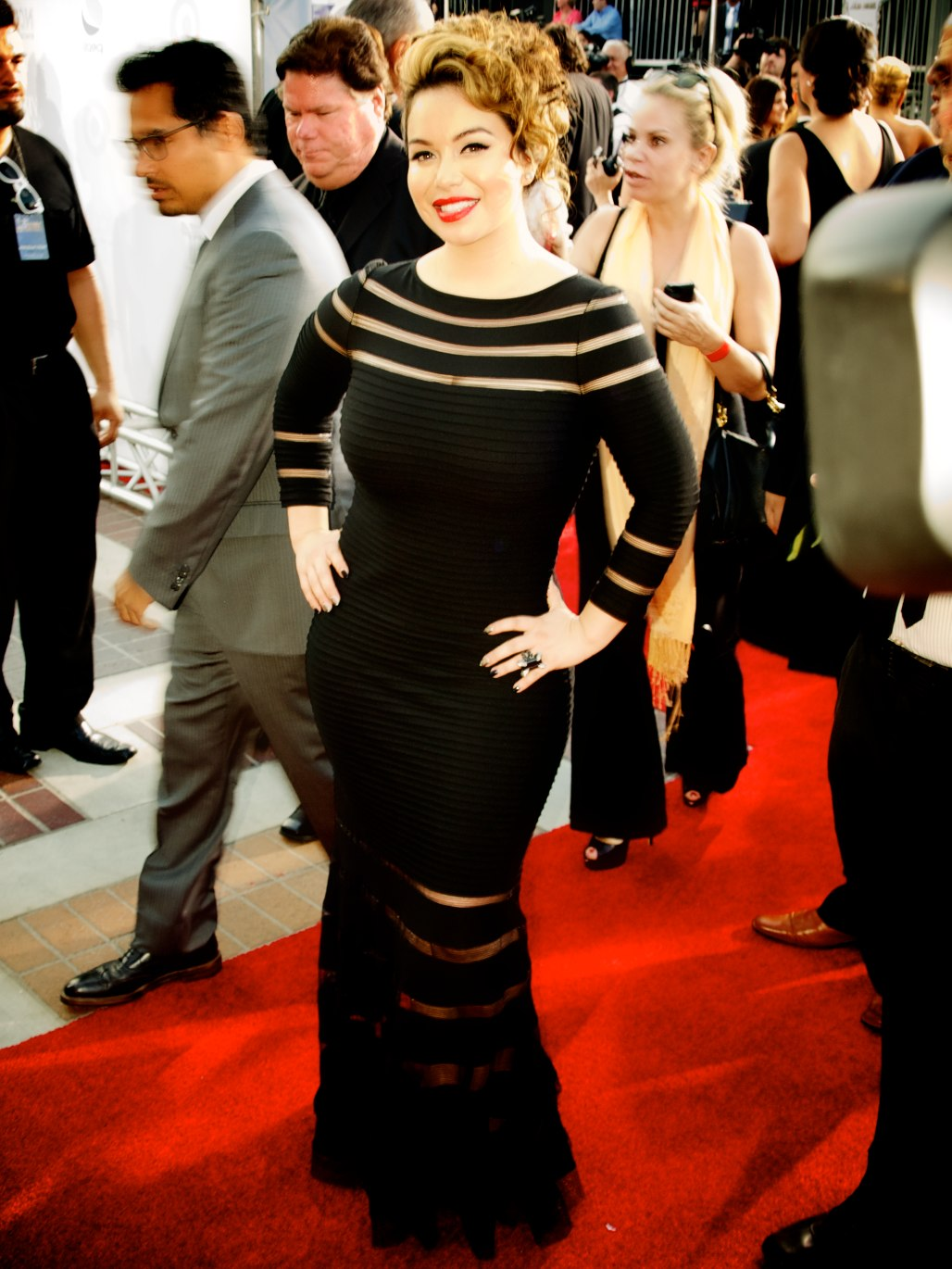 Janney "Chiquis" Marin, Alma Awards 2012